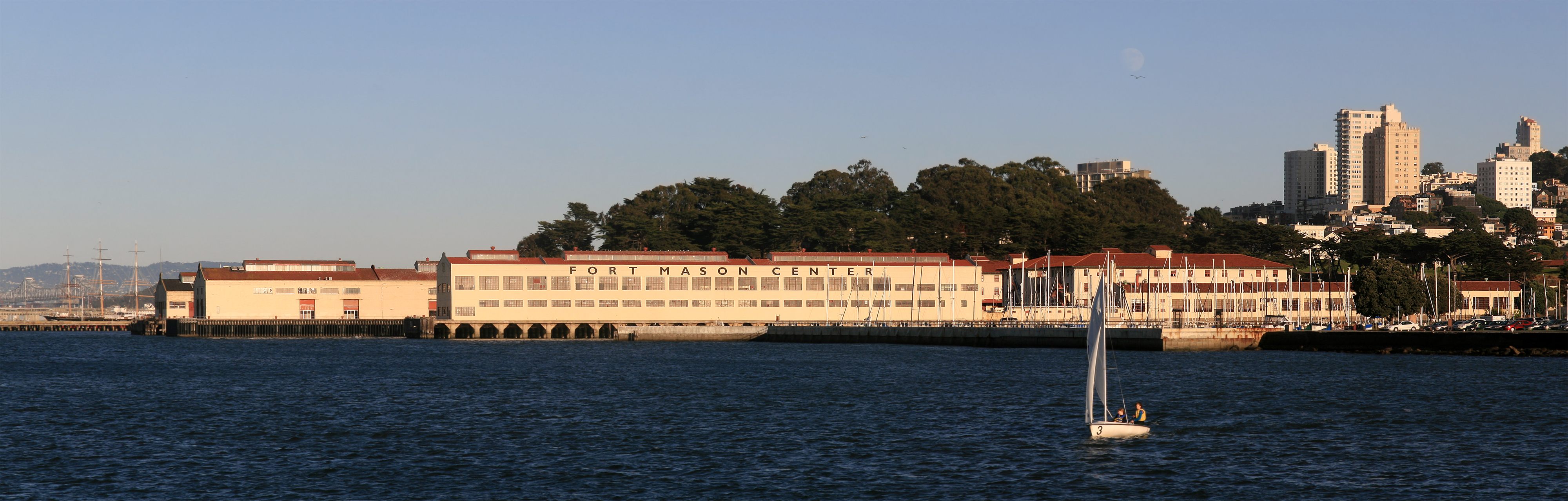 Fort Mason Center and Downtown San Francisco